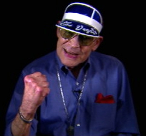 Hunter S. Thompson in Fuck (film)